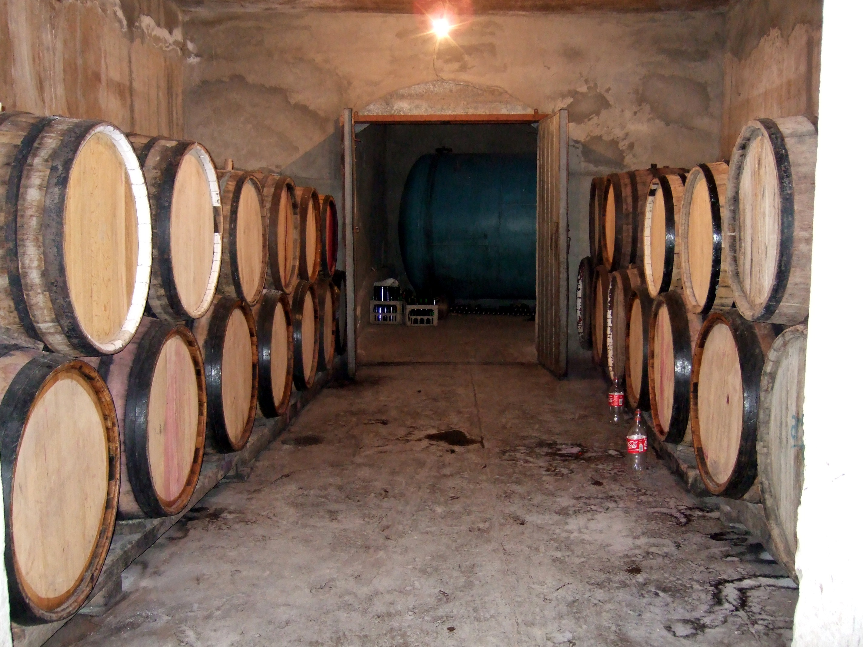 Small winery in Areni, Armenia